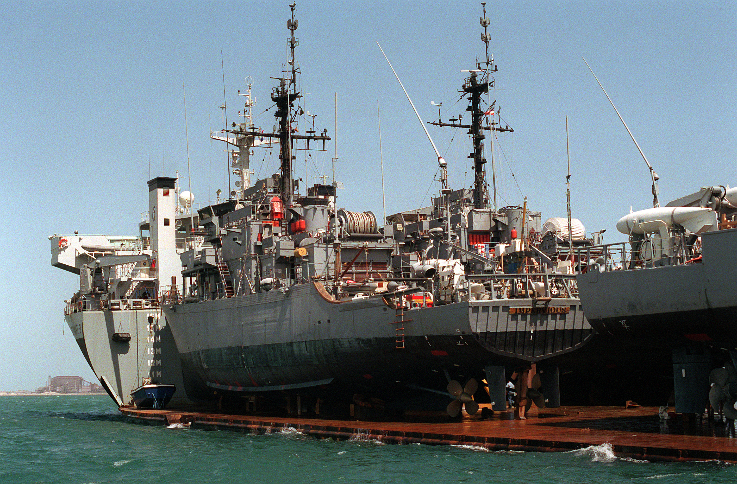 The ocean minesweeper USS IMPERVIOUS (MSO-449) and other vessels are positioned on the partially submerged deck of the Dutch heavy lift ship SUPER SERVANT 3 prior to offloading in support of Operation Desert Shield. Information about Super Servant 3 may be found at IMO 8025331.A ship can change name and flag state through time, but the IMO number remains the same through the hull's entire lifetime. As a result, it can be useful to identify a ship by using the IMO number.